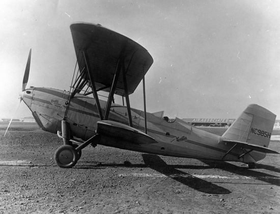 Catalog #: 00064367 Manufacturer: Curtiss Designation: Official Nickname: Carrier Pigeon II Notes: CO Curtiss Conqueror Engine Repository: San Diego Air and Space Museum Archive